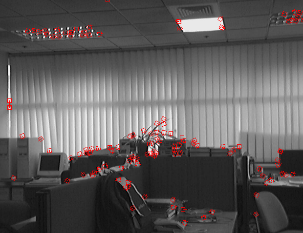 SIFT test on first image.